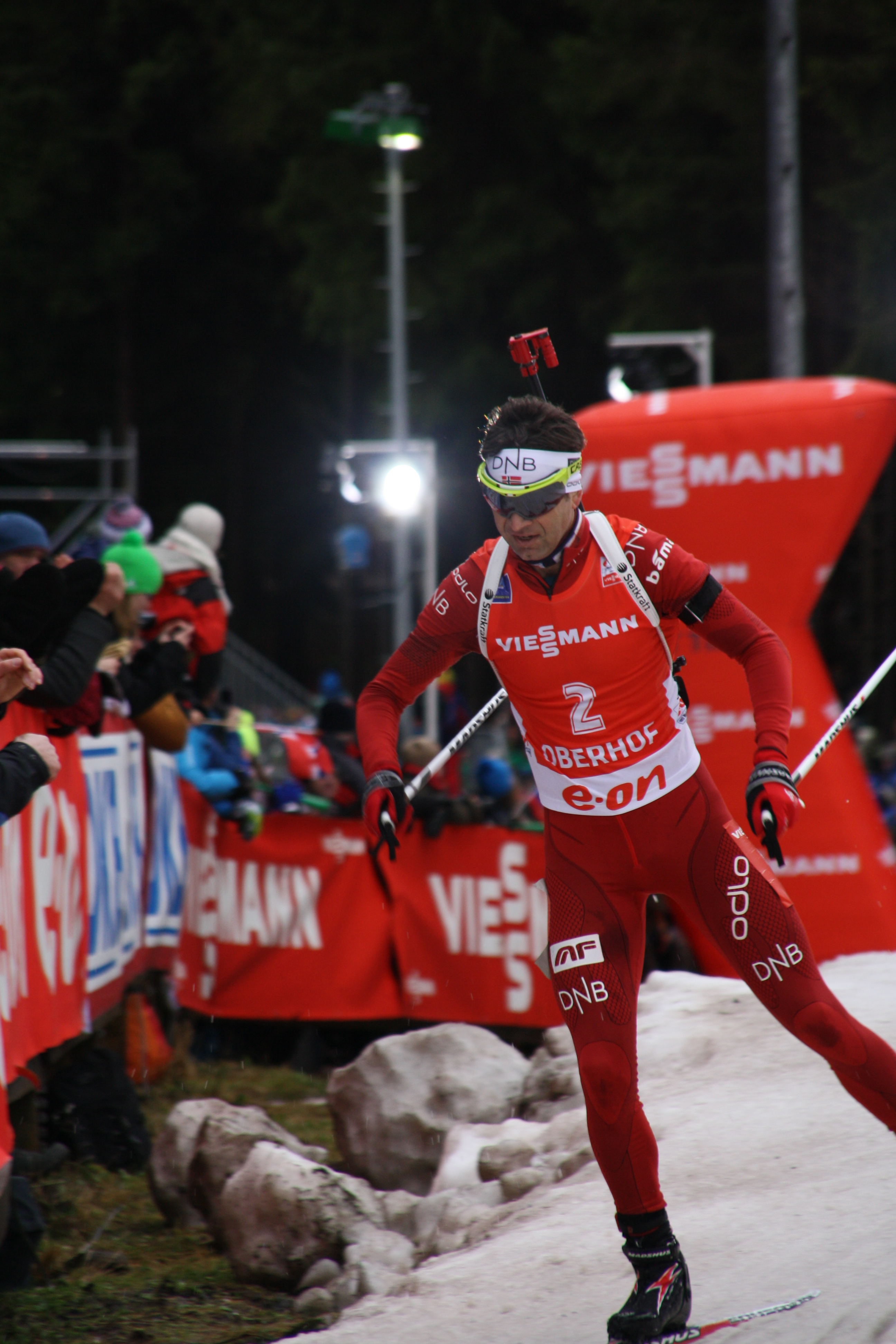 Biathlon World Cup Oberhof 2014 - Mens Pursuit